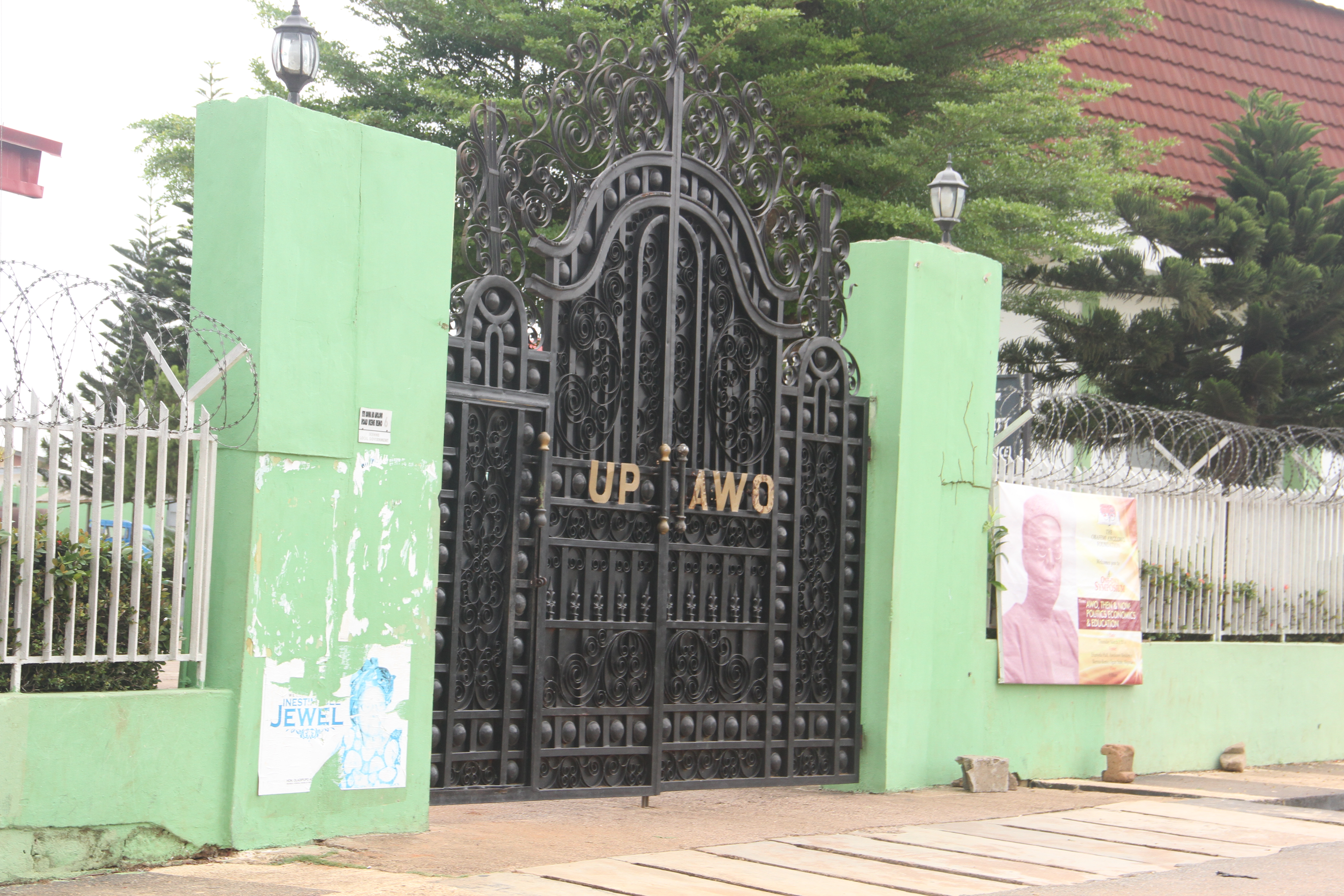 Entrance to Late Chief Obafemi Awolowo's Residence